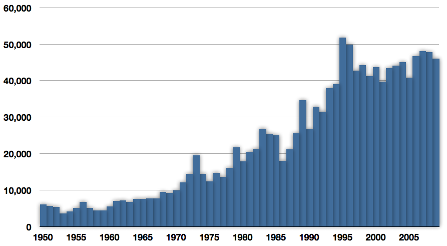 Fisheries recorded capture of Scomberomorus guttatus from 1950 to 2009. Data source FAO fisheries